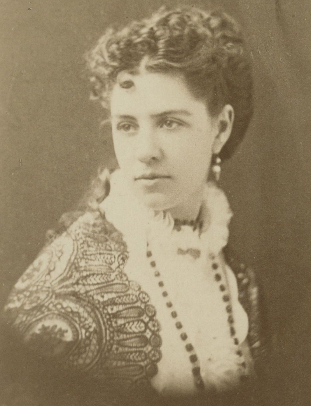 Portrait photograph of Ina Coolbrith, taken in San Francisco at the Louis Thors studio, approximately 1871 when she was 29 or 30.